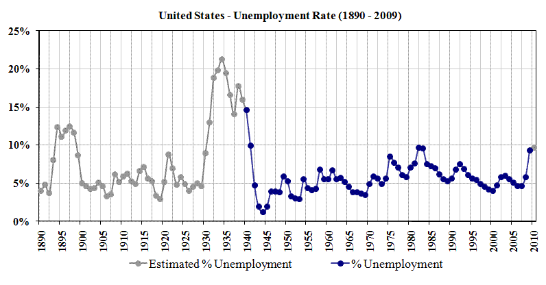 selfmade image of U.S. Unemployment rate from 1890-2009